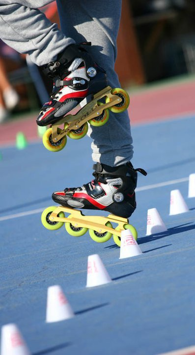 Trick freestyle inline skate